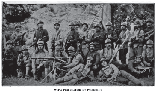 Armenian volunteer units under British Egyptian Expeditionary Force, under Edmund Allenby